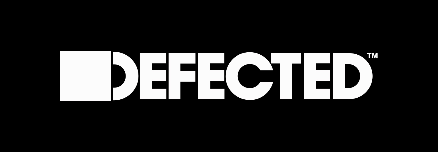 Current official logo of Defected Records